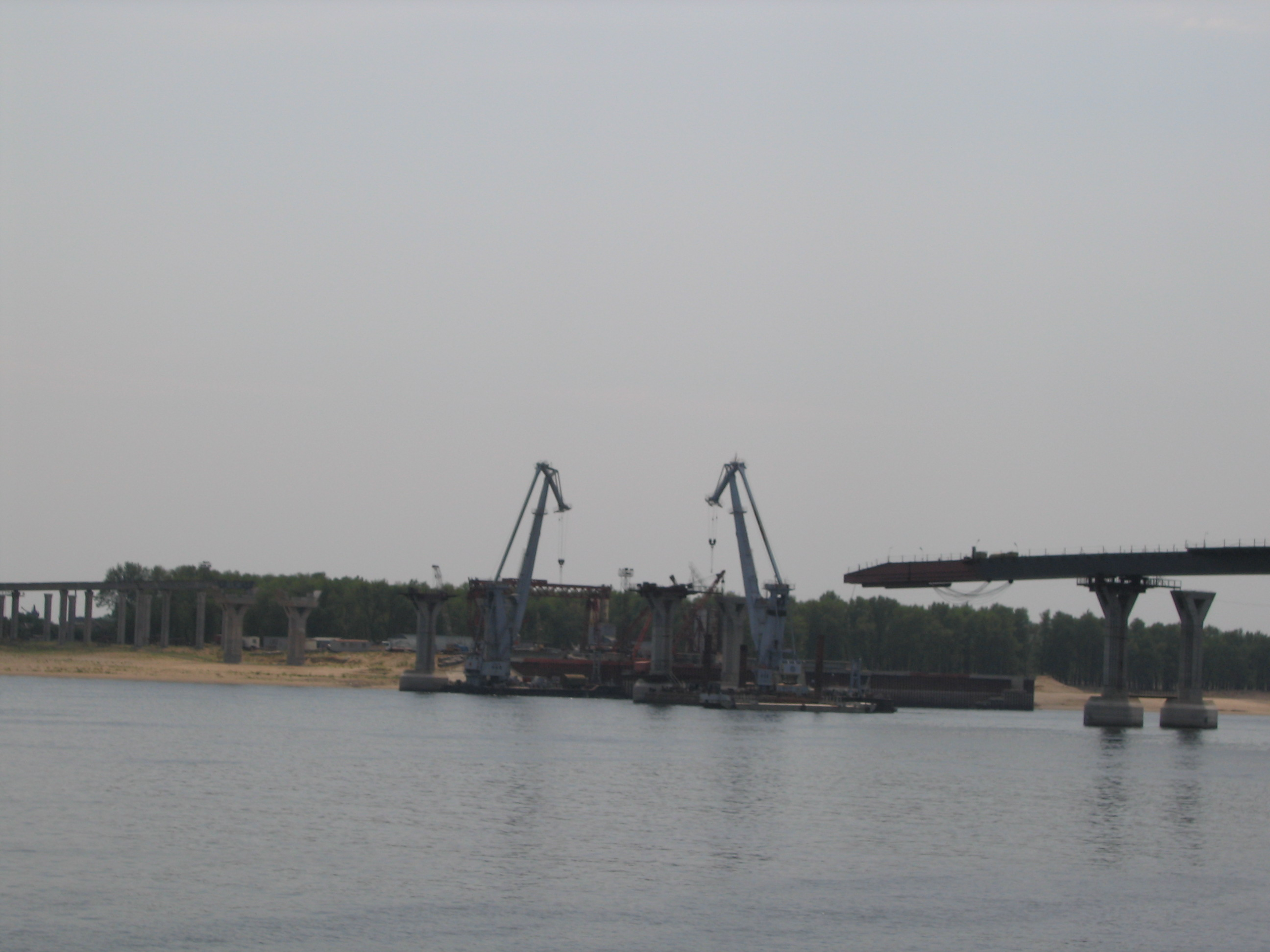 Bridge in Volgograd over Volga under construction